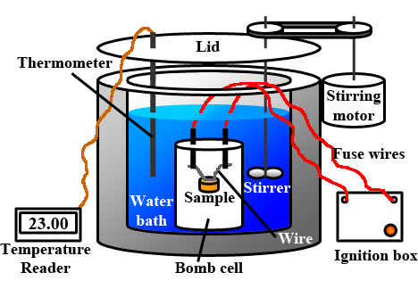 Diagram of a bomb calorimeter apparatus.